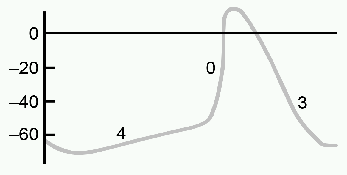 This work has been released into the public domain by its author, PhiLiP. This applies worldwide. In some countries this may not be legally possible; if so: PhiLiP grants anyone the right to use this work for any purpose, without any conditions, unless such conditions are required by law. 从image:P_Zelle.jpg重新制图